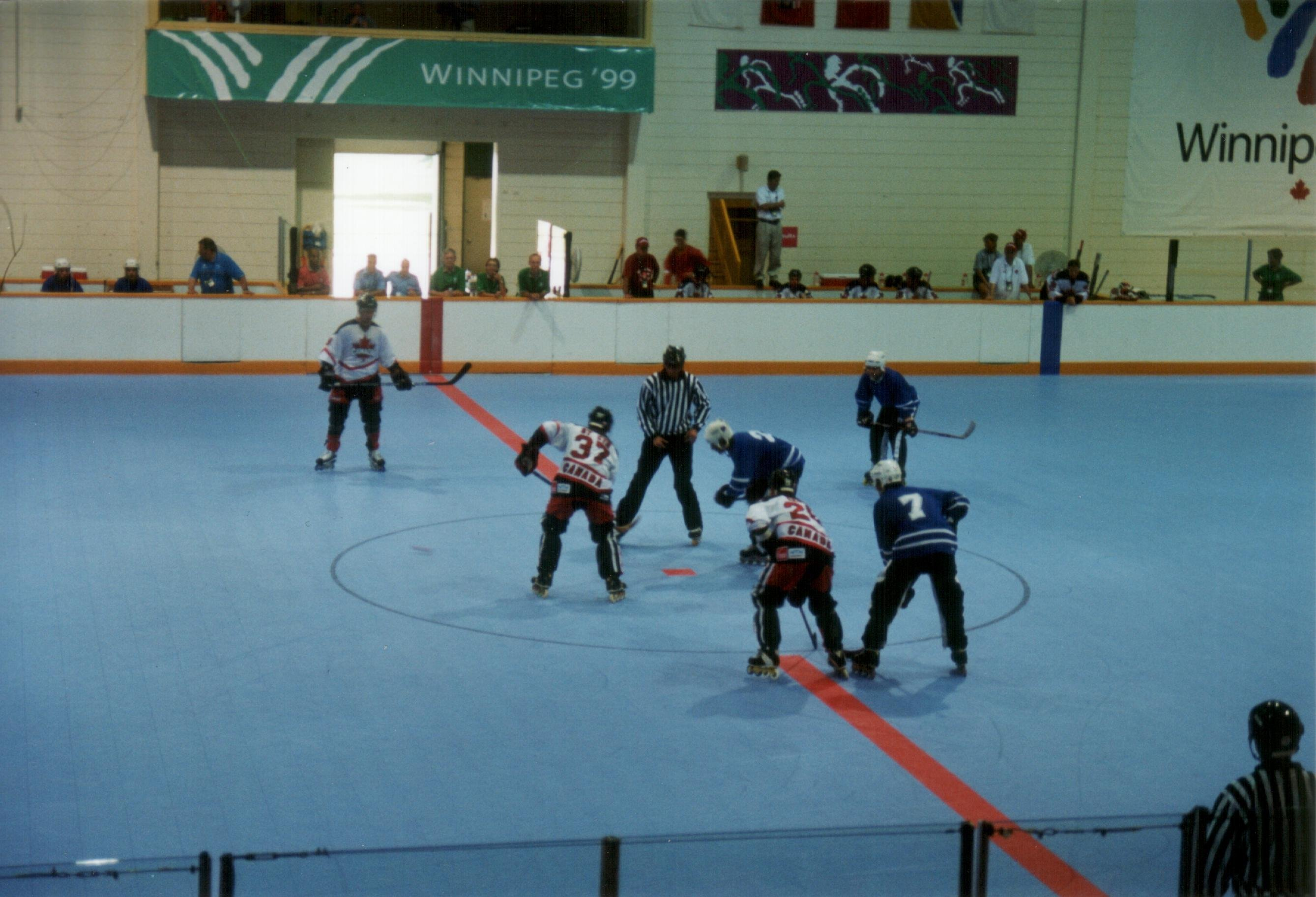 The first round Canada versus the United States roller hockey game at the 1999 Pan American Games in Winnipeg, Canada. The United States won this match 6-2, but went on to lose to Canada in the final. However, Canada were subsequently disqualified after their Goalkeeper, Steven Vezina, tested positive for drug use.